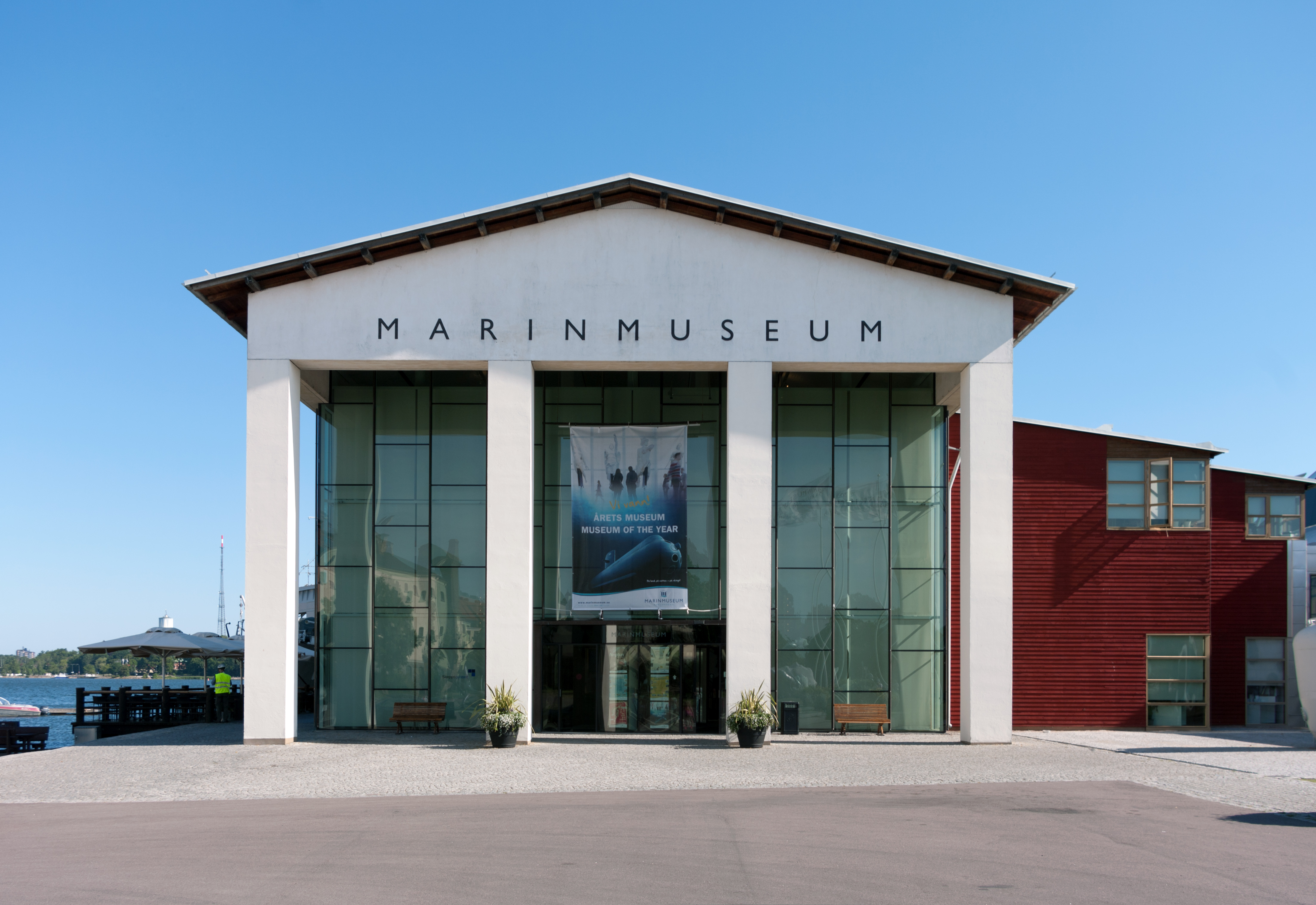 The Naval Museum, Stumholmen, Karlskrona